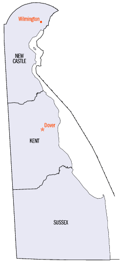 Map showing three counties of Delaware.